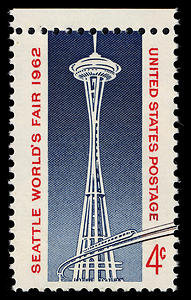 A commemorative 4-cent postage stamp celebrating the 1962 Century 21 Exposition in Seattle, Washington, depicting the Space Needle.